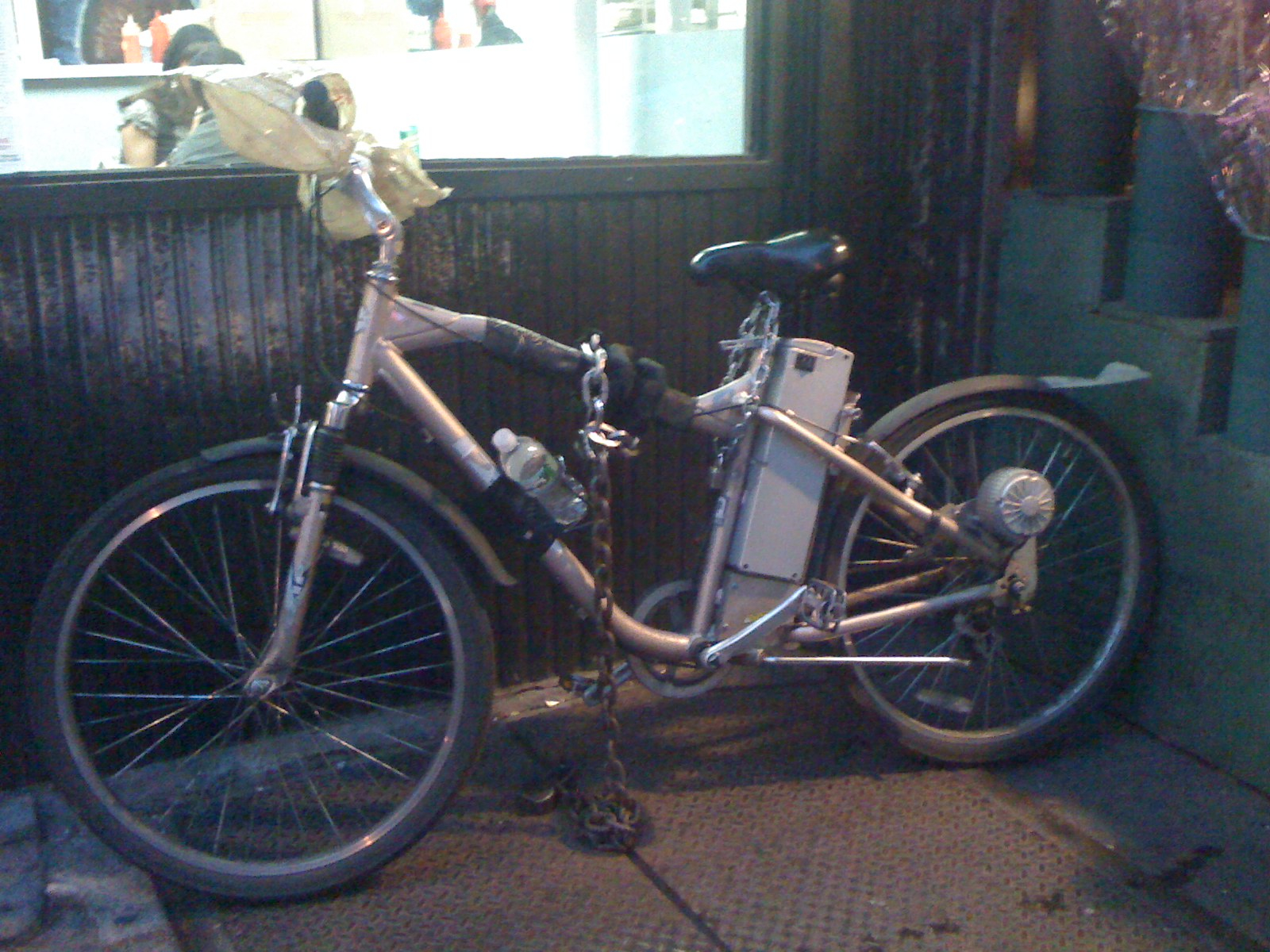 Bicycle used by a restaurant deliveryman in NYC (IPhone picture, Amsterdam Avenue and 81st Street, May 8, 2008)